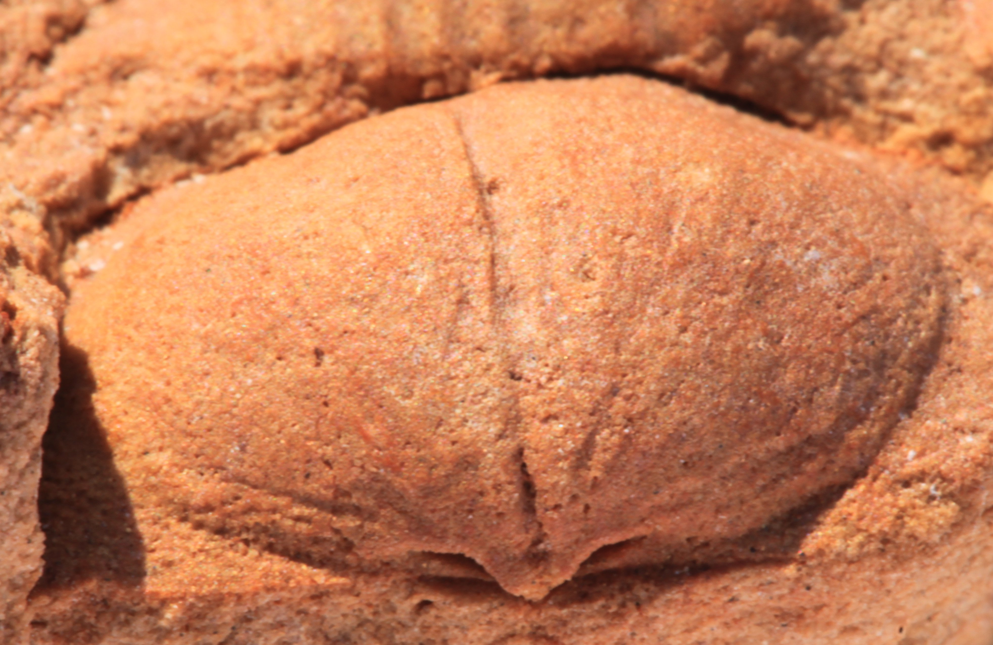 A Chonetes gracilis lampshell, Order Productida, Family Chonetidae, 13mm along the axis, internal mould, collected near Kielce, Poland, from the late Middle Devonian (Emsian)